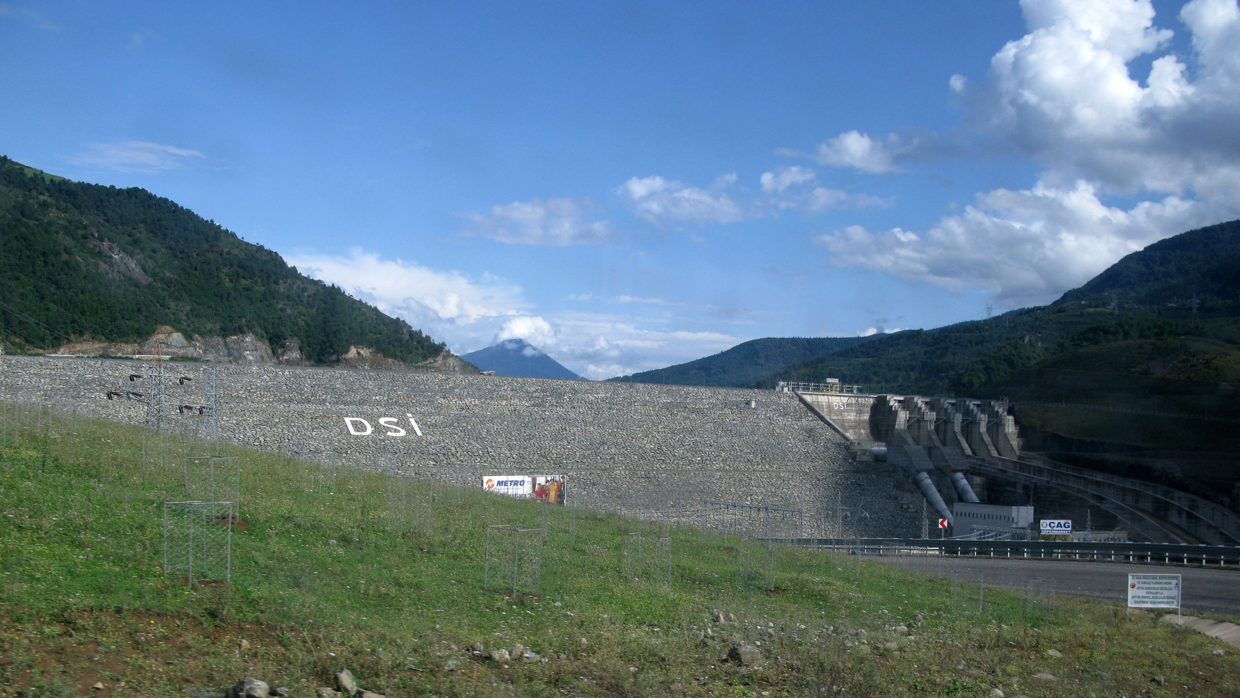 Borçka dam. Picture take from the road between Artvin and the coast. In the Provice of Artvin, Turkey